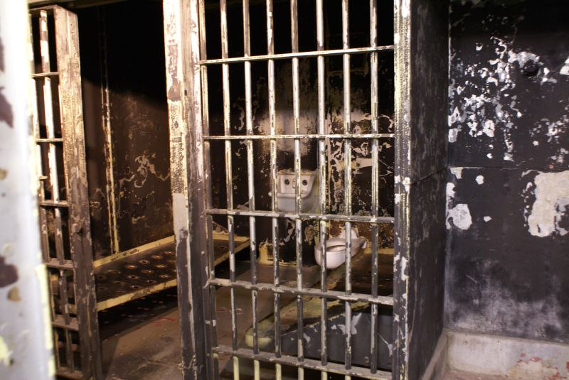 Old Noblesville jail - once home to Charles Manson